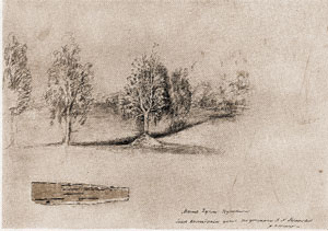 A drawing of Pushkin's duel place painted from nature by artist I. Krinitsky